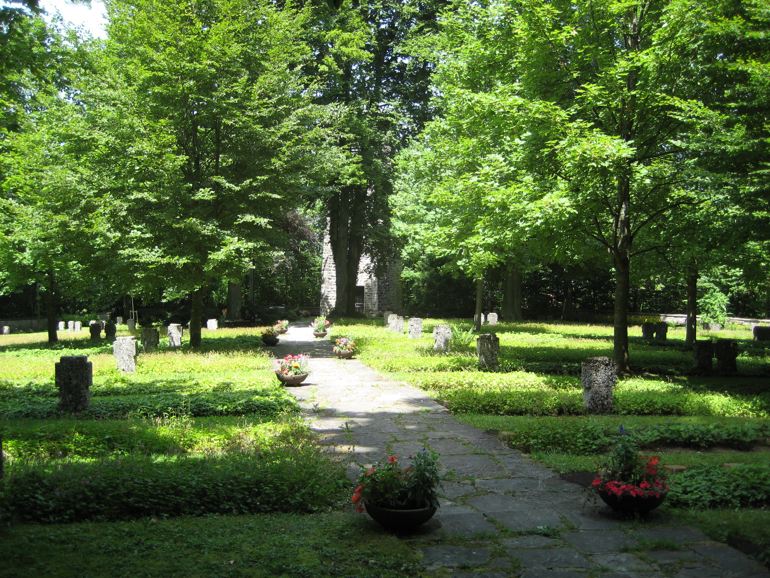 World War II cemetery in Sonthofen